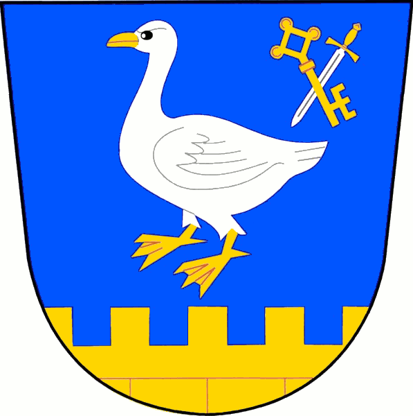 Municipal coat of arms of Hrádek village, Znojmo District, Czech Republic.